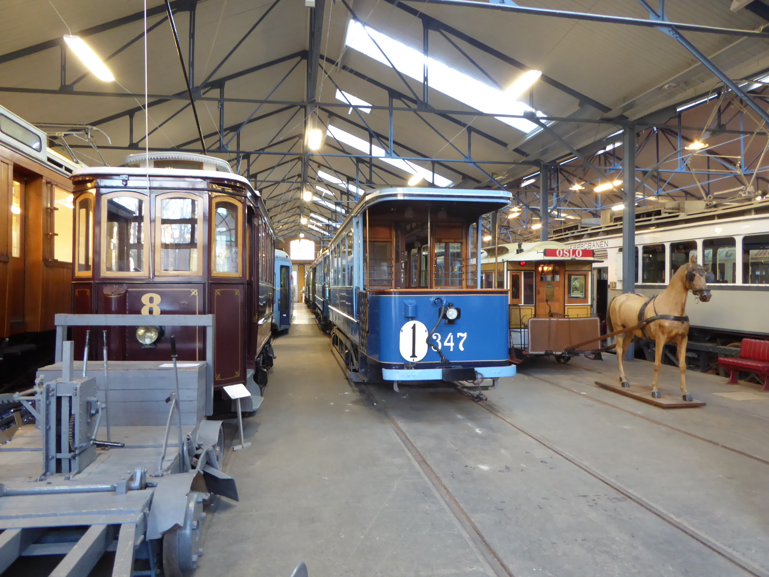 The trams HKB 8 of Holmenkolbanen from 1897, KES 347 of Kristiania Elektriske Sporvei from 1913 and KSS 6 of Kristiania Sporveisselskab from 1875 at Sporveismuseet in Oslo.